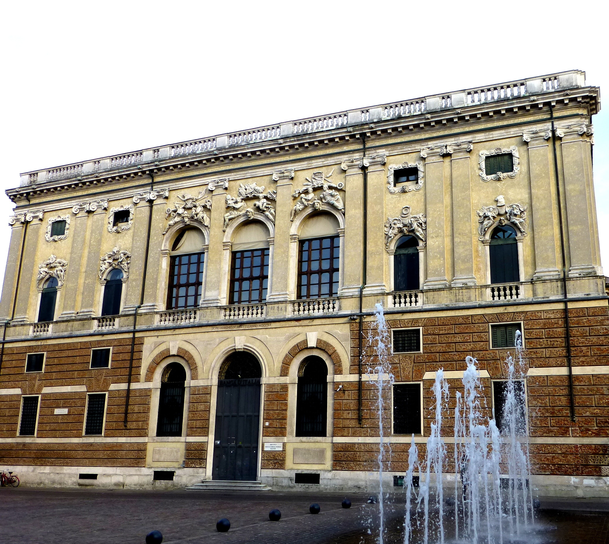 Vicenza - Palace Repeta ('700) - Architect Francesco Muttoni